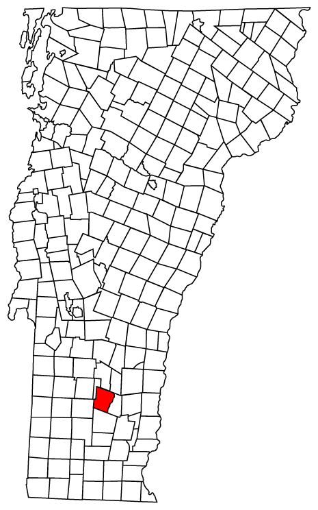 Description: Map of Vermont towns with Londonderry highlighted Source: Map created by Jared C. Benedict on 26 March 2004. Copyright: © Jared C. Benedict.